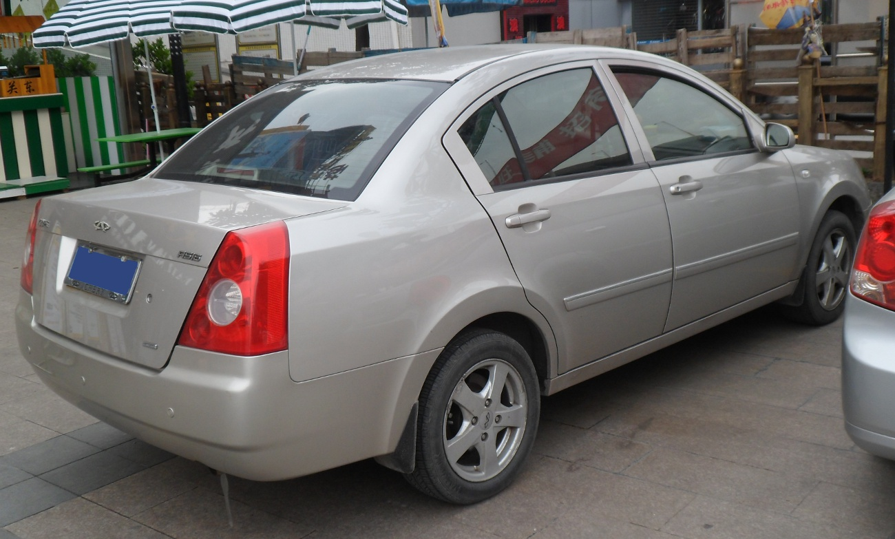 Chery A5 photographed in Shanghai, China.